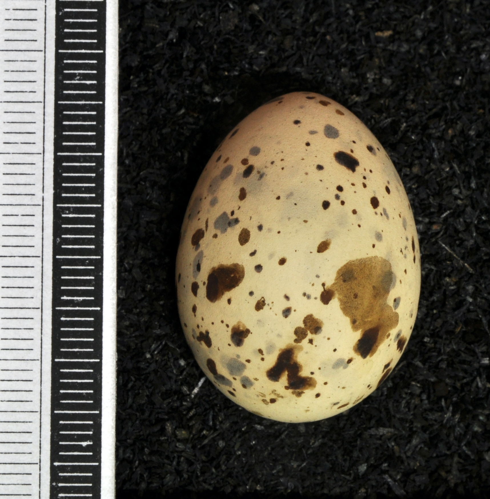 Little tern Sterna albifrons , egg, Coll. Museum Wiesbaden